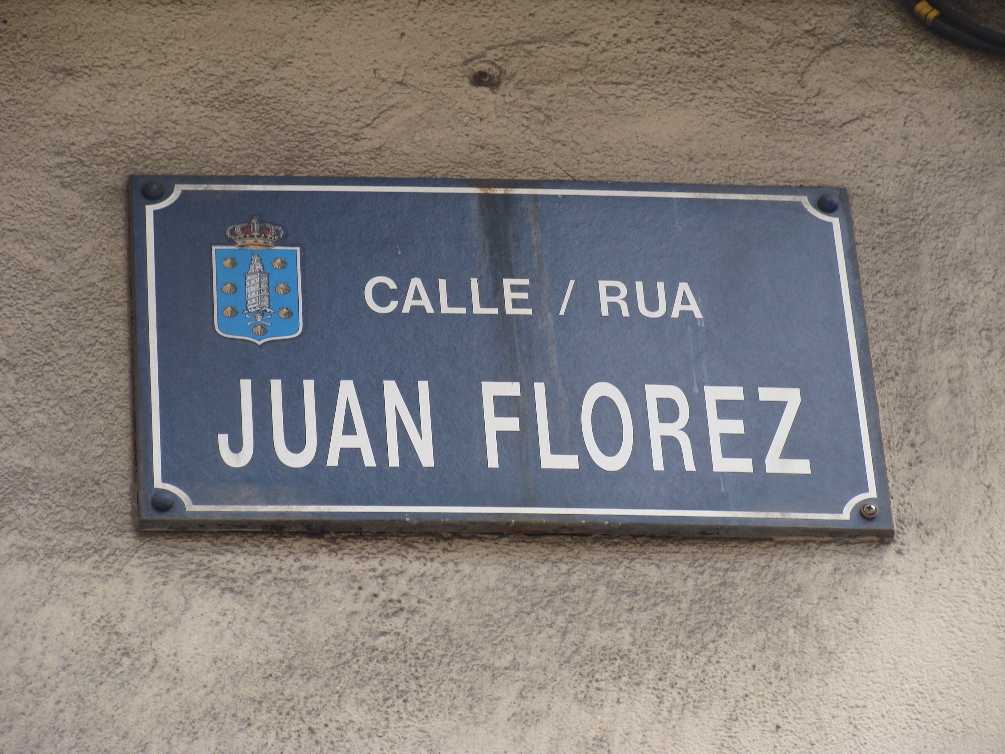 Juan Flórez street sign in A Coruña, Galicia, Spain.